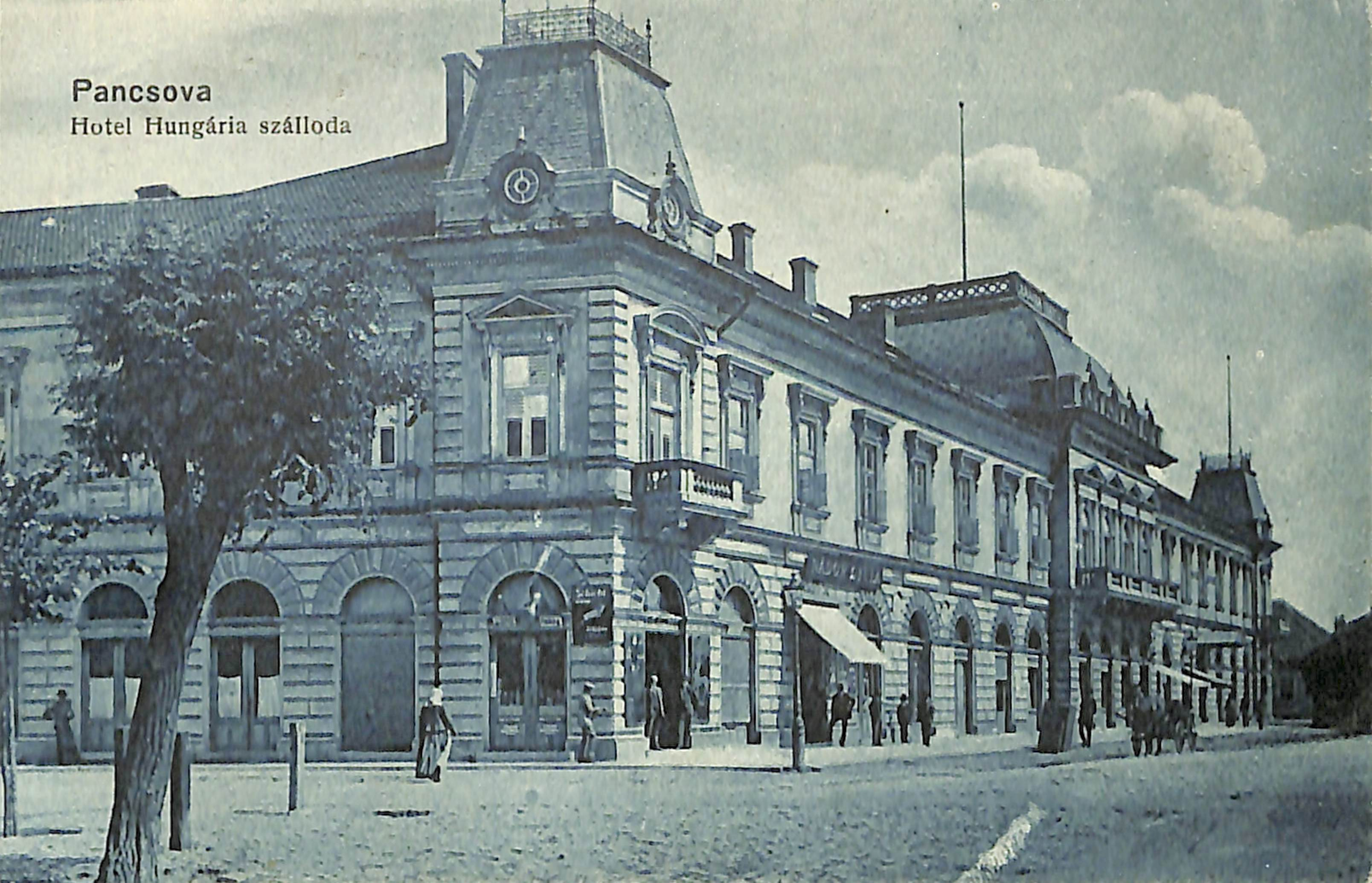 Former Staff building of the German-Banat border guards